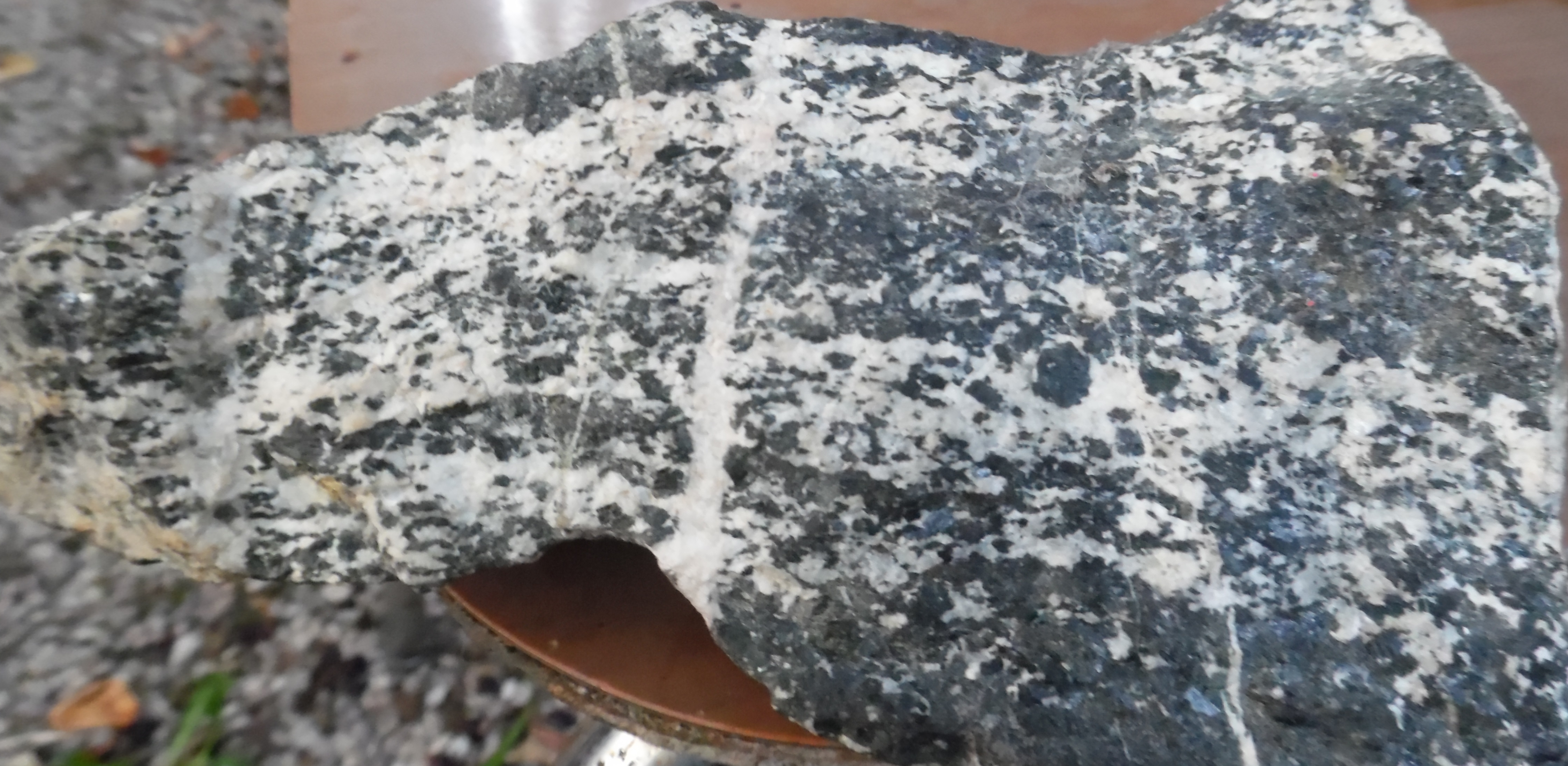 Amphibolite from Champagnac-la-Rivière, Haute-Vienne, France. Emplaced as a tectonic lens within the base of the Lower Gneiss Nappe in the Limousin.